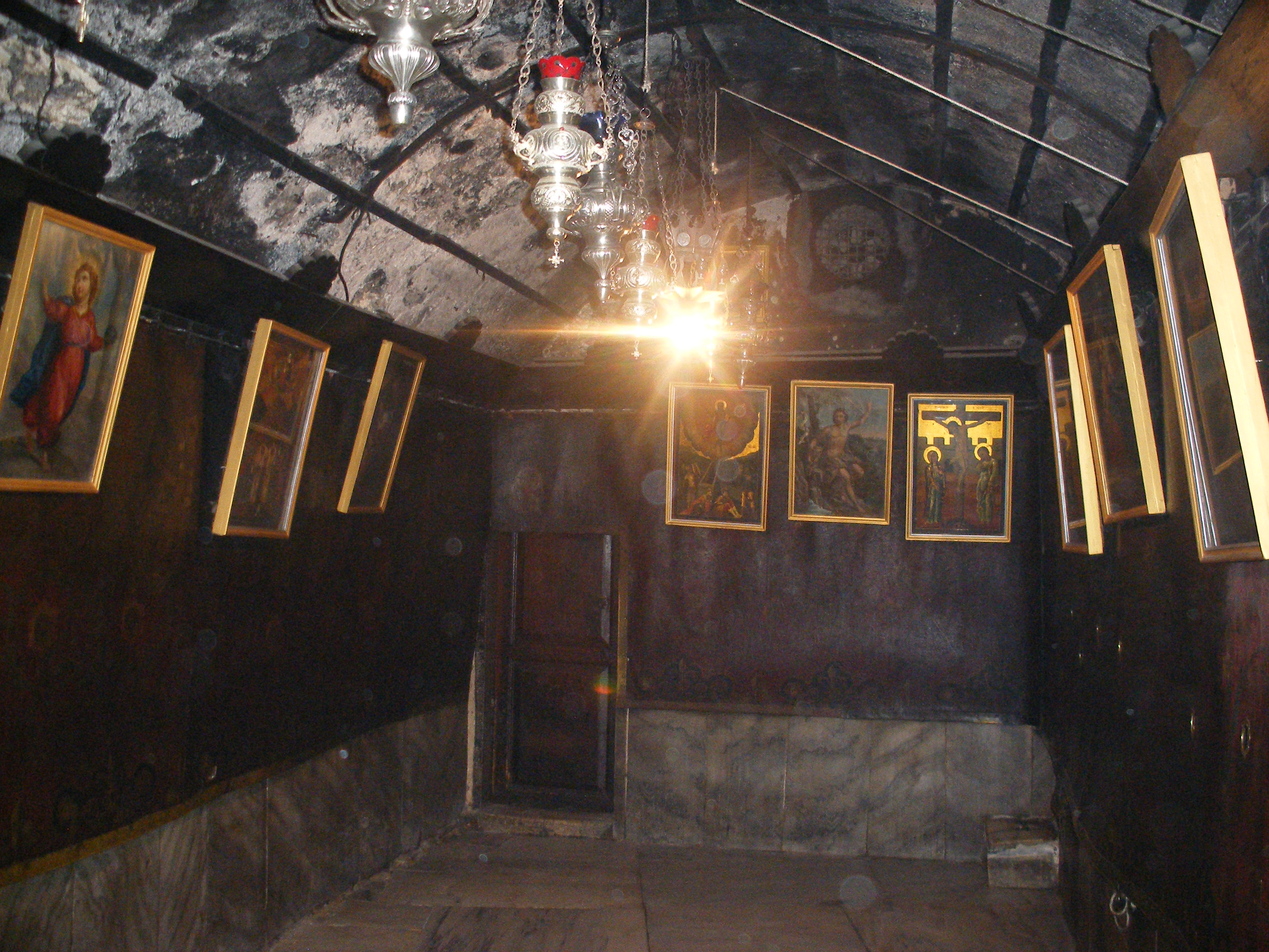 Grotto of the Nativity, west part. Bethlehem. Holy Land.